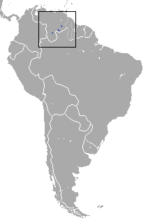 Tyler's Mouse Opossum (Marmosa tyleriana) range